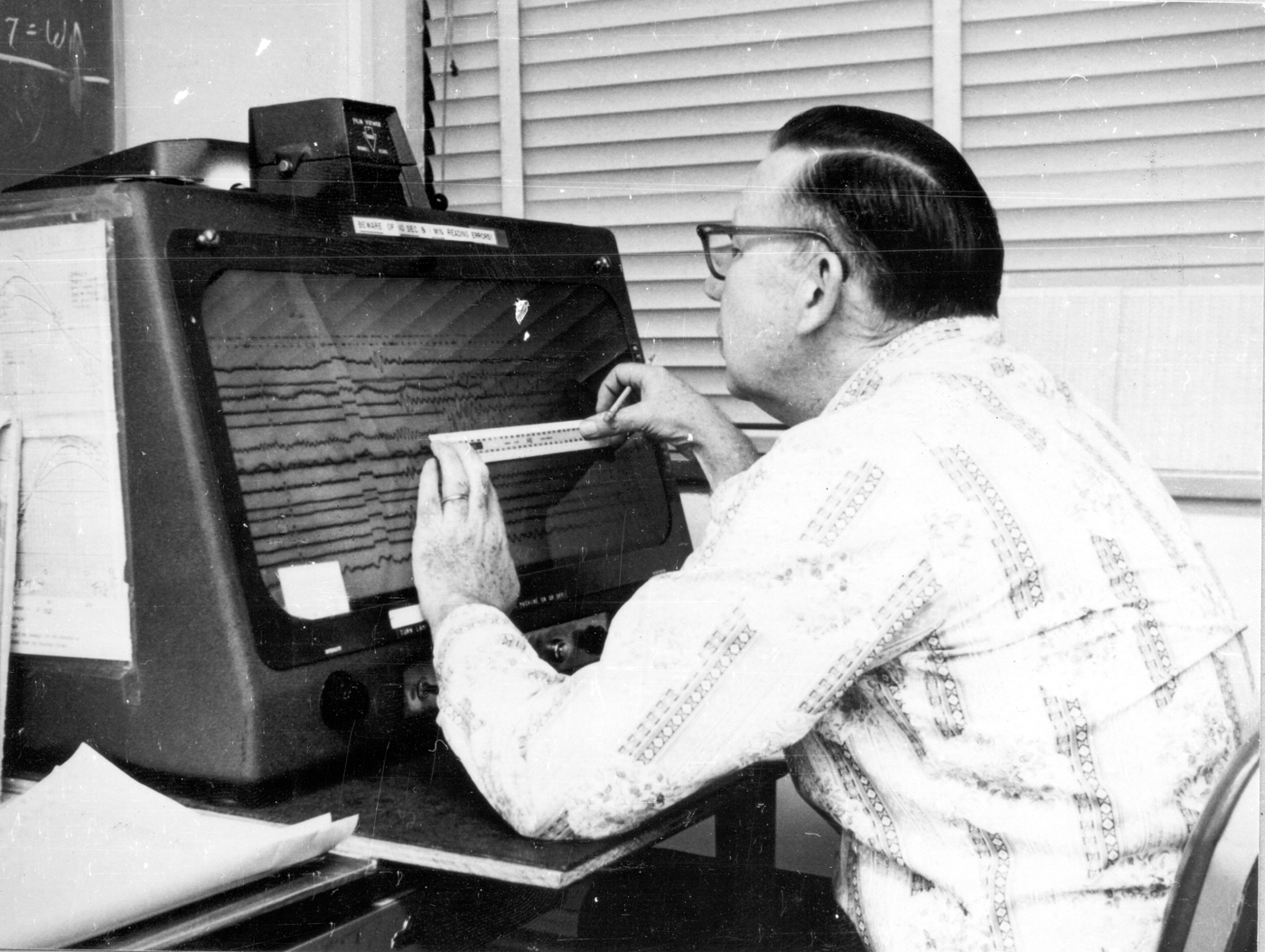 Seismology and Seismometry.U.S. Geological Survey National Earthquake Information Center. A develocorder records signals from fifteen stations on a continuous reel of film. This is processed by the machine and is ready for viewing within eleven minutes of an event. Photo by R. McKenzie, pre-1977. Page 10 (upper photo), Earthquake Information Bulletin, v.9, no.3.